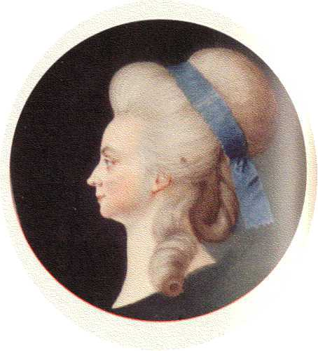 Portrait of Caroline Ulrike of Saxe-Coburg-Saalfeld (1753-1829), Deaconess of Gandersheim, daughter of Ernest Frederick, Duke of Saxe-Coburg-Saalfeld